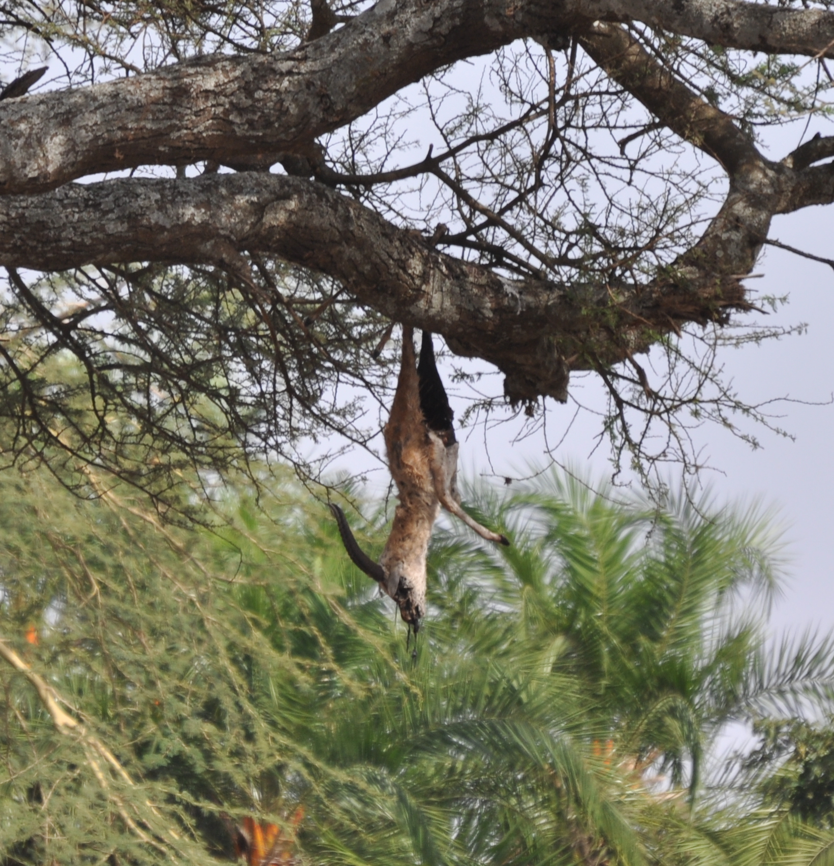 Leopard kill hanging from tree in central Serengeti